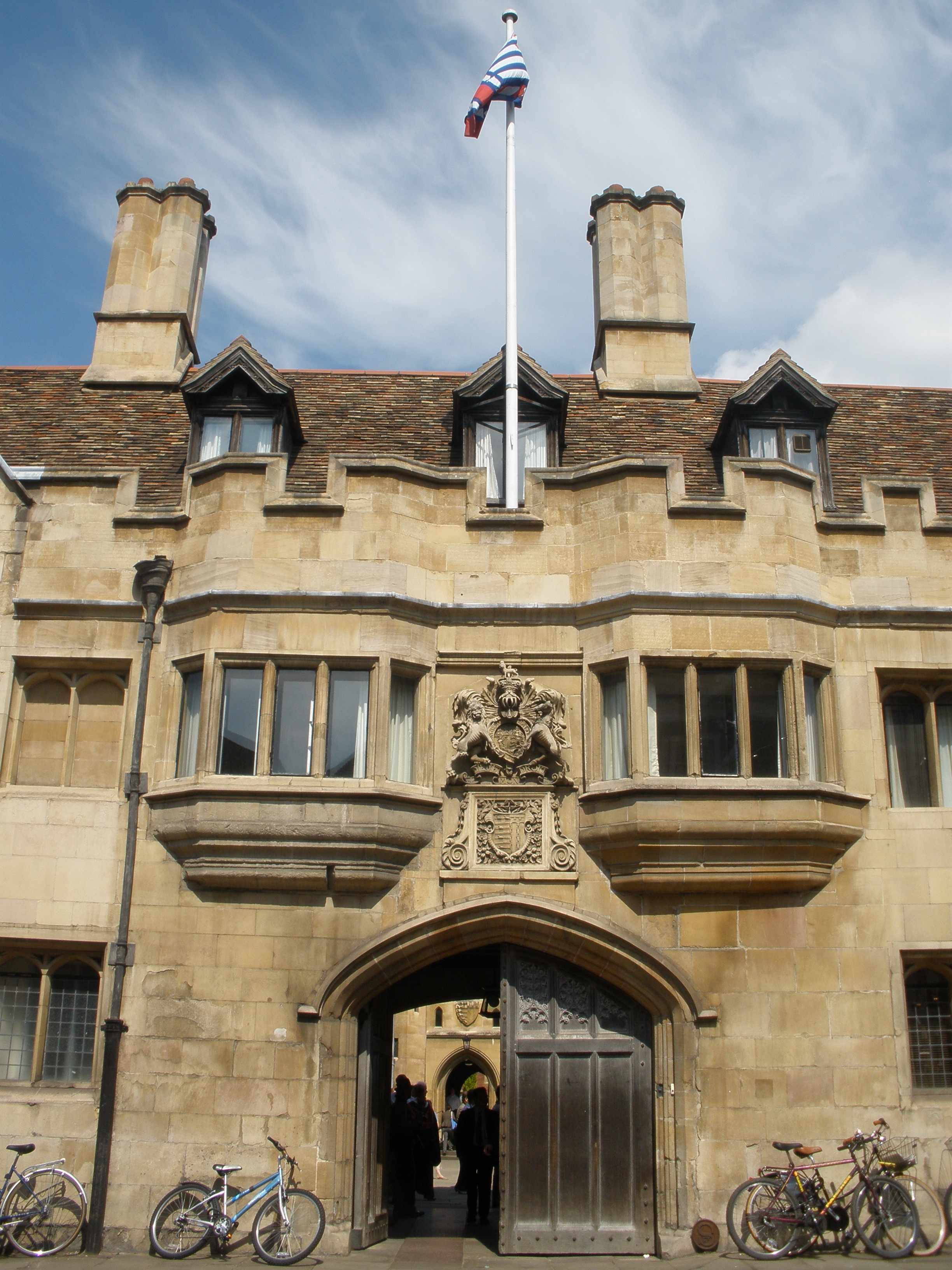 The gatehouse of Pembroke College, Cambridge. The gatehouse is the oldest in Cambridge, dating from the 14th Century.